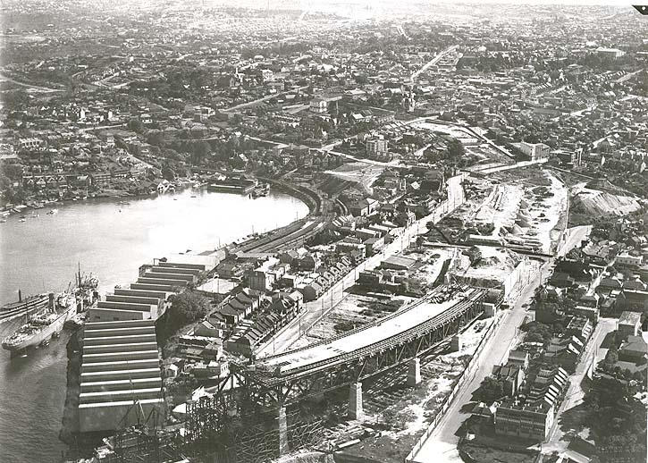 Aerial view of construction of the northern approach to the Sydney Harbour Bridge. Also shows the North Shore railway line - both the original alignment and construction work on the realignment and extension across the bridge.